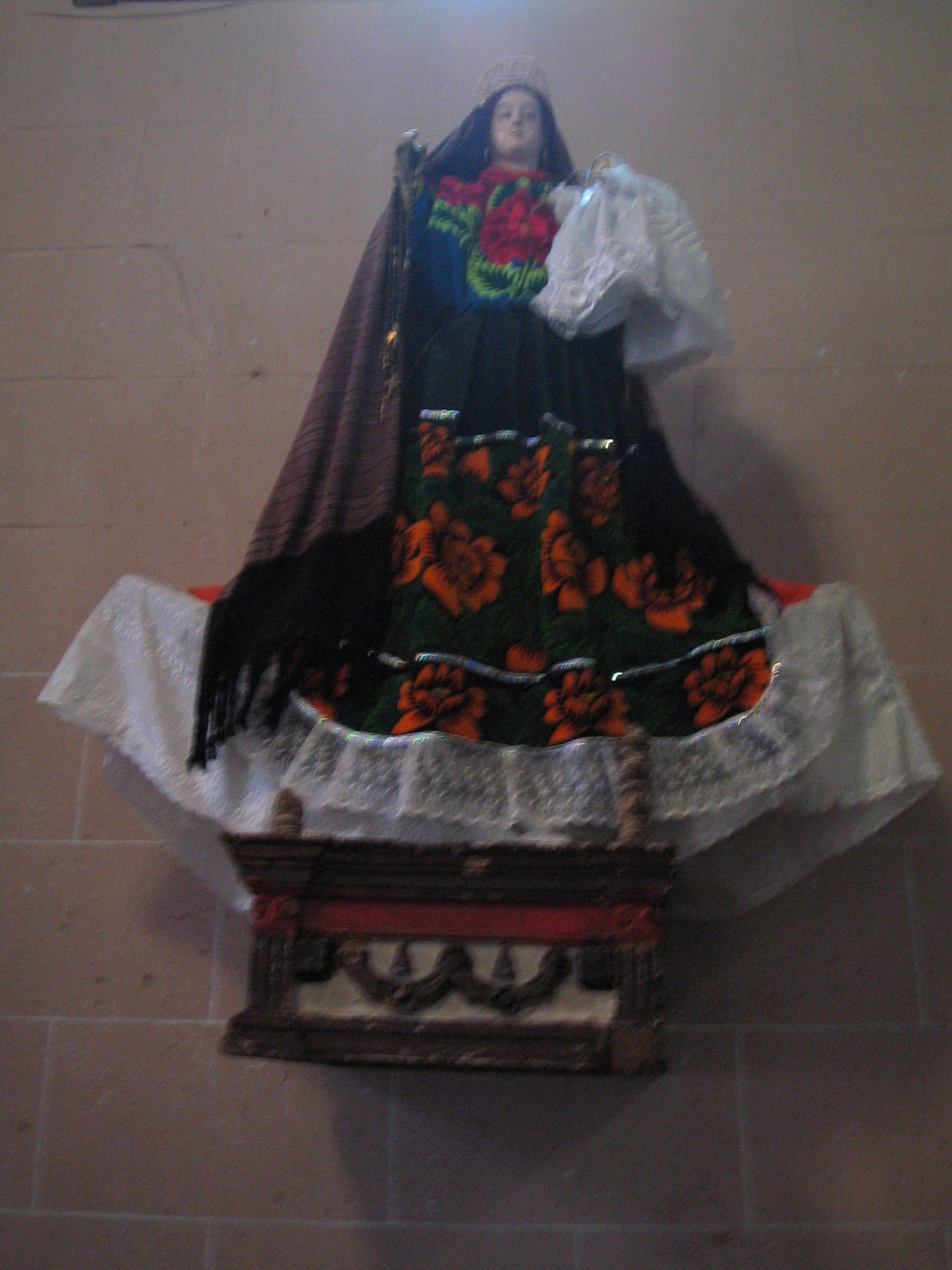 A statue of Mary in Pátzcuaro's church. She's dressed with P'urépuchas traditionnal garments.